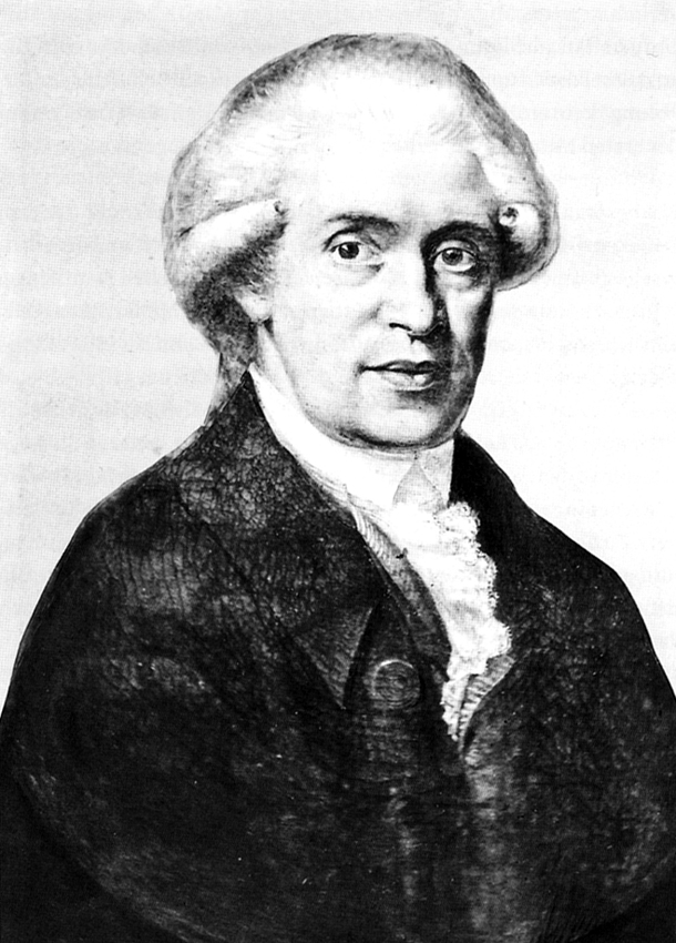 The physician and founder of the Gesellschaft Museum (museum society) in Bremen, Germany, Arnold Wienholt (1749–1804).